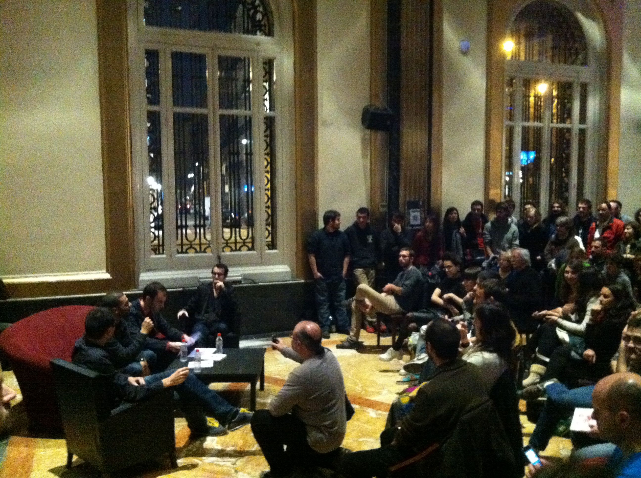 Tria Llibres: Presentation of the Book Hawaii Metero by Jaïr Domínguez